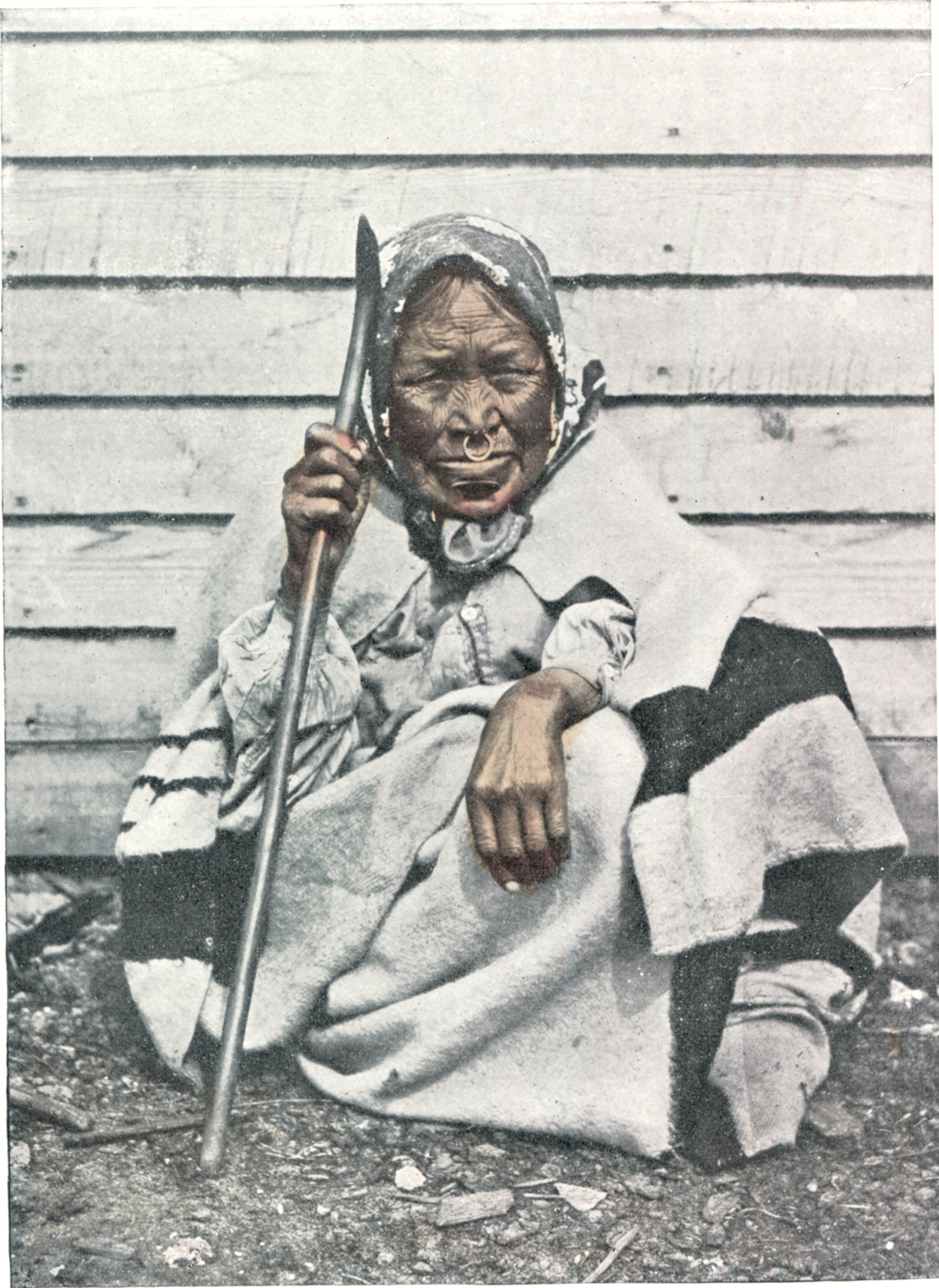 Old Haida-Indian from the Queen Charlotte Islands in British-Columbia by Nose ring and Lip plate.